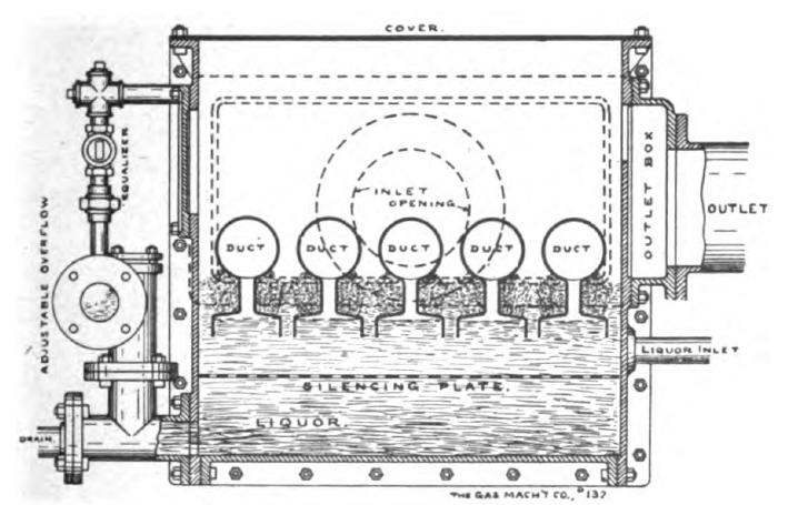 Diagram of a Bubbling Washer for a coal gas plant